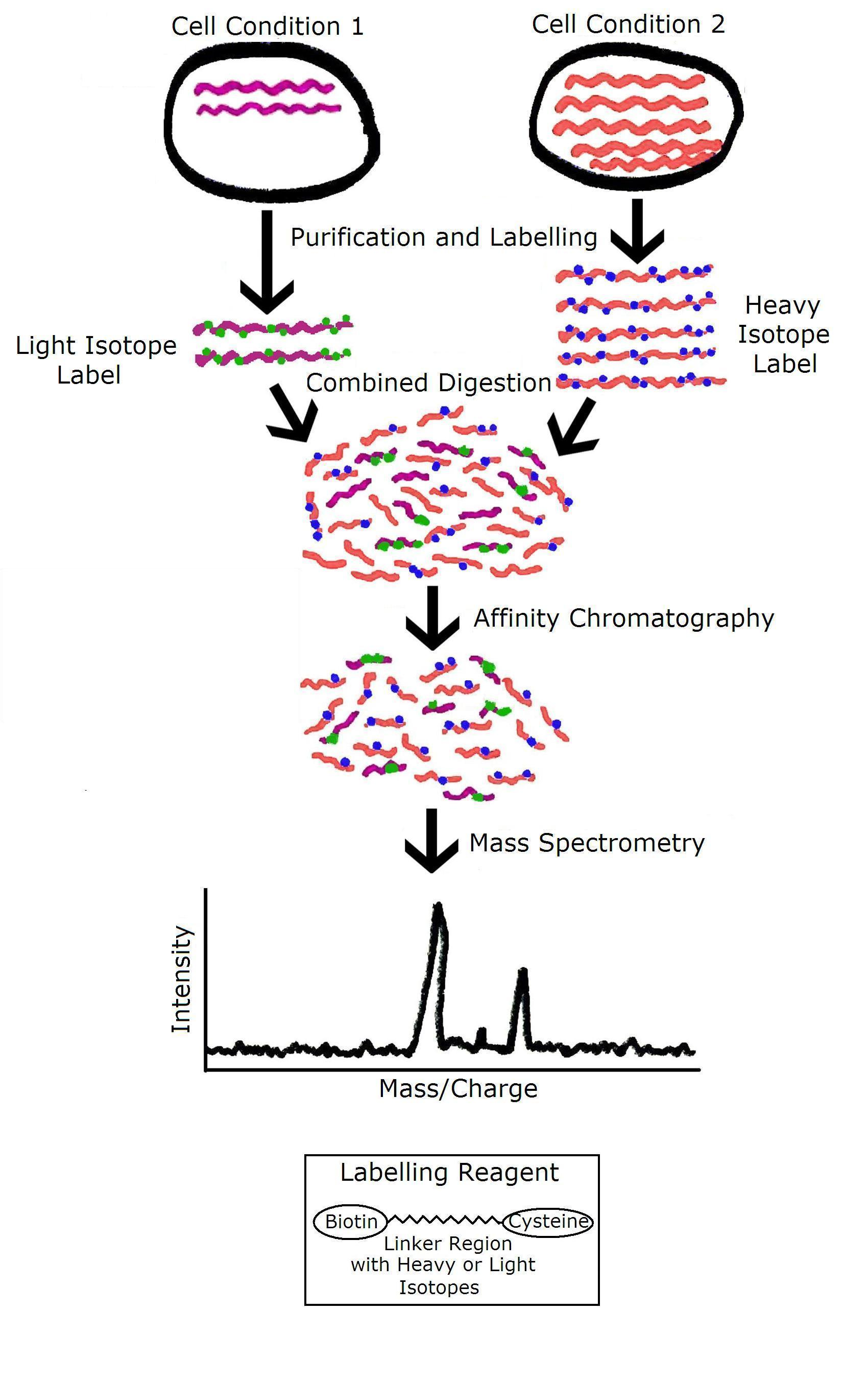 Procedure for Isotope-Coded Affinity Tags